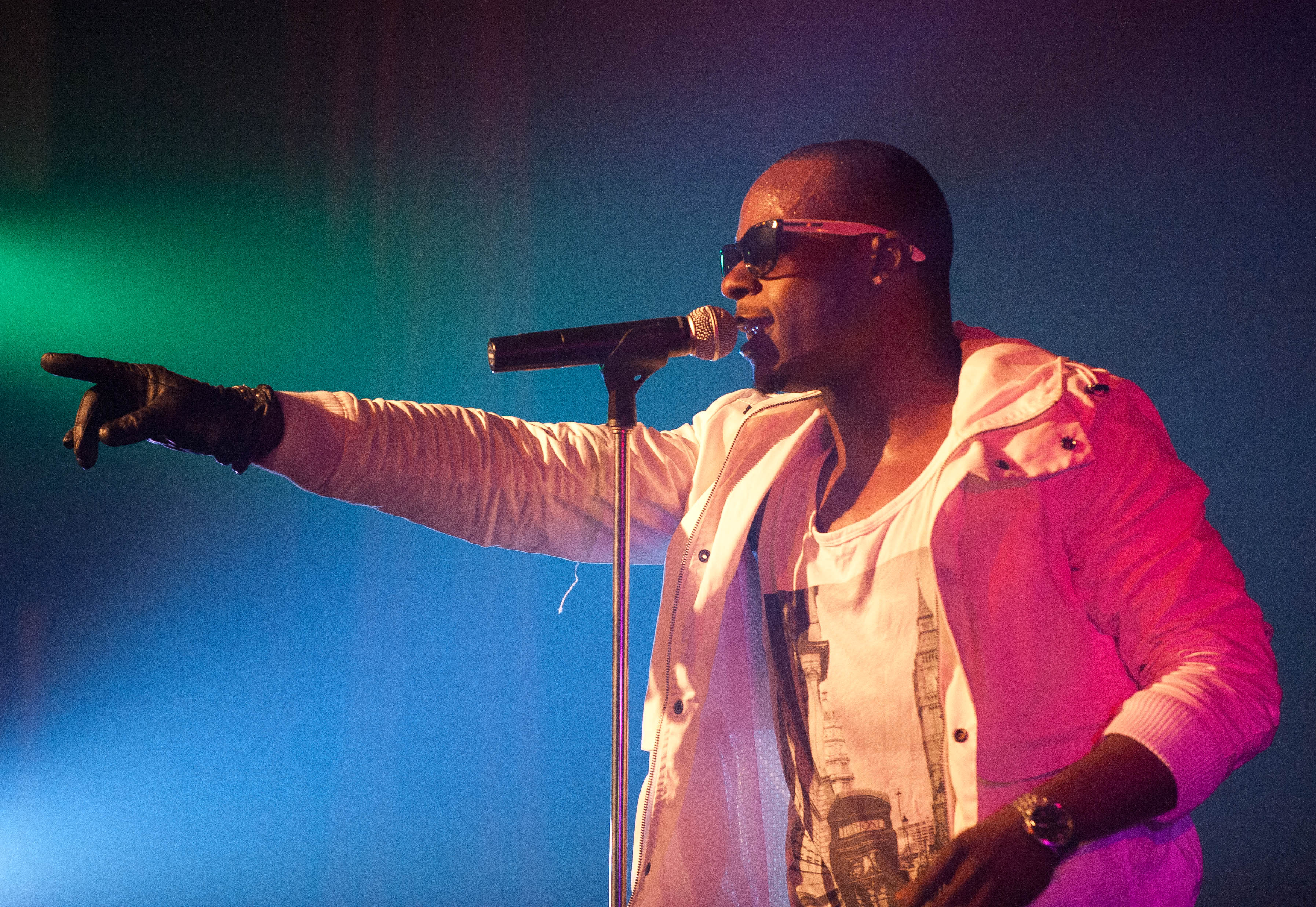 Timomatic Concert 2011-267